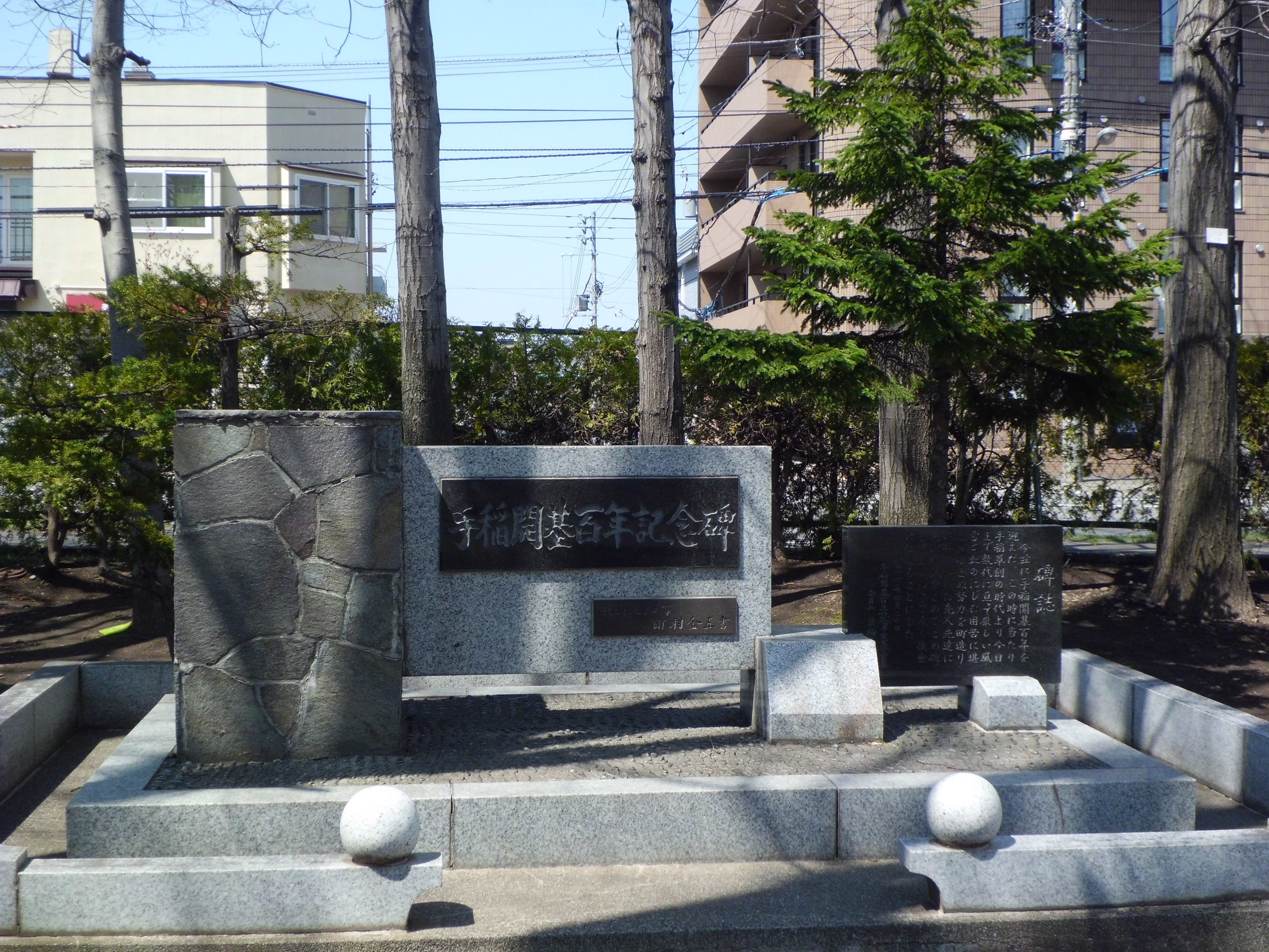 Teine Centennial Monument